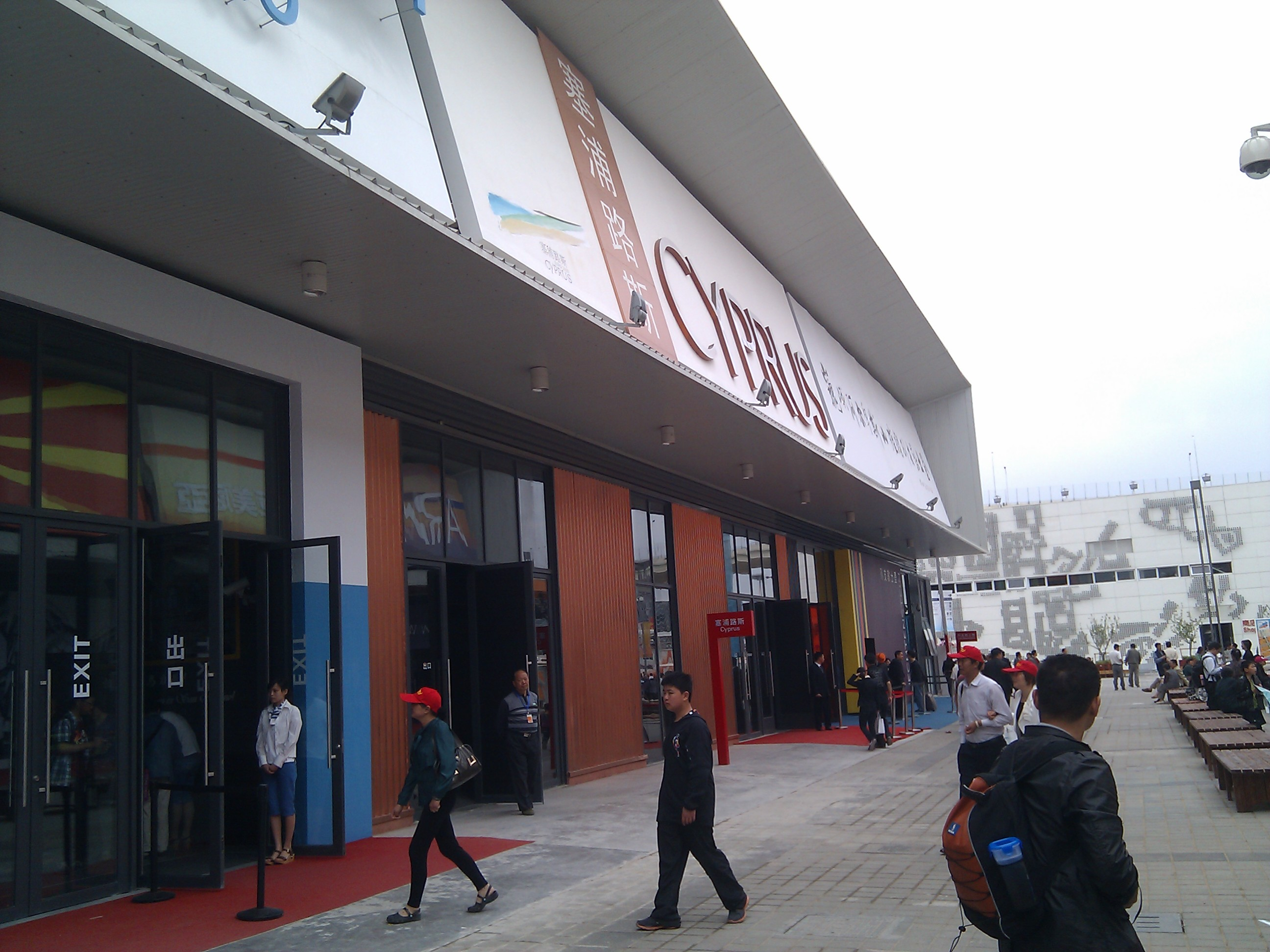 Cyrpus Pavilion of Expo 2010 (in Europe Joint Pavilion I)